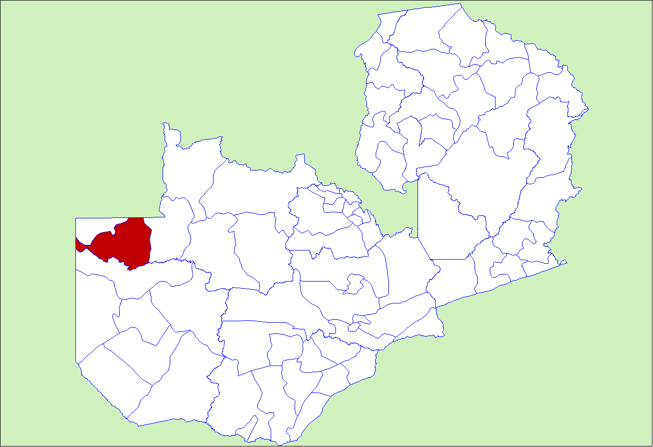 District locator in Zambia